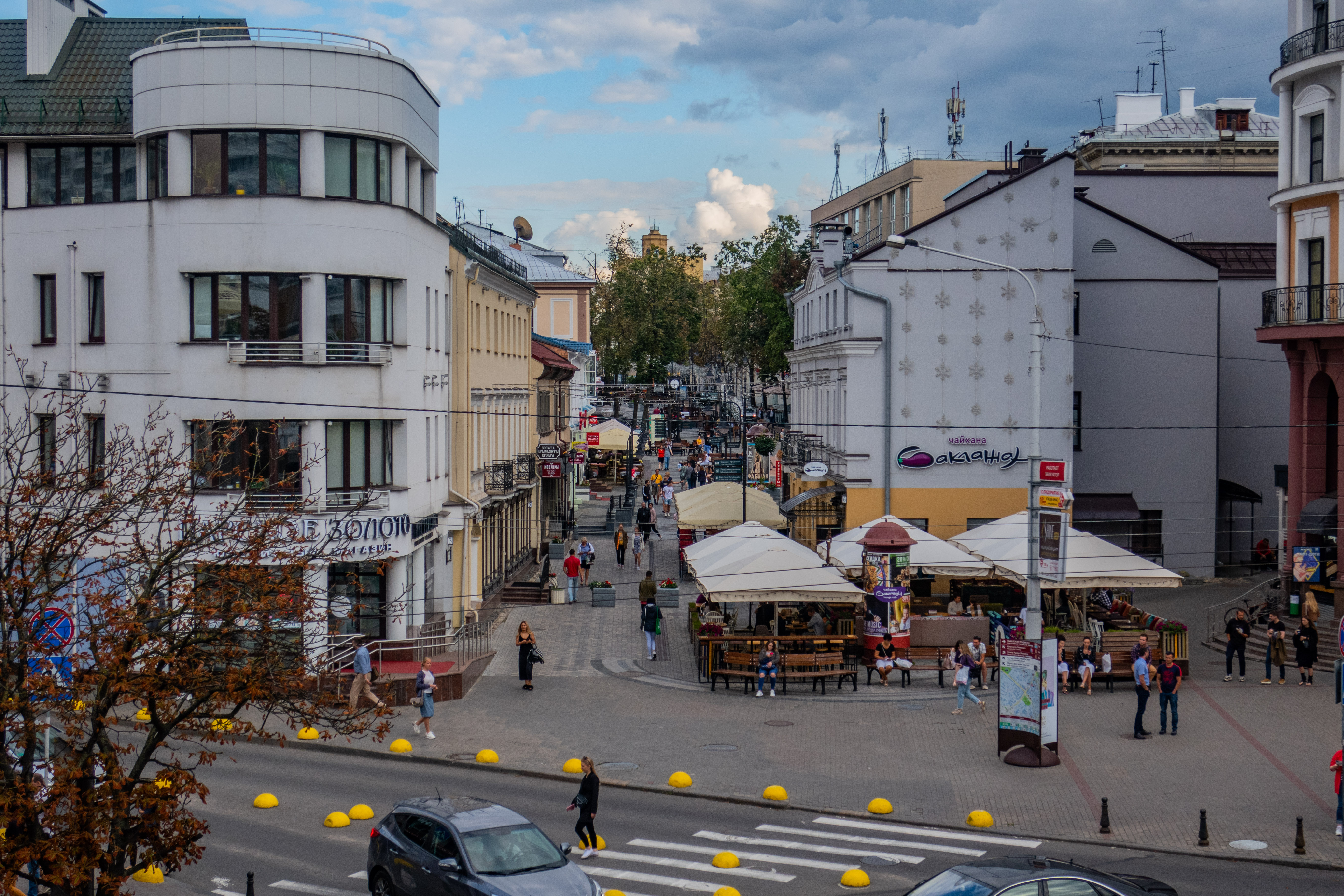 Kamsamoĺskaja street. Minsk, Belarus